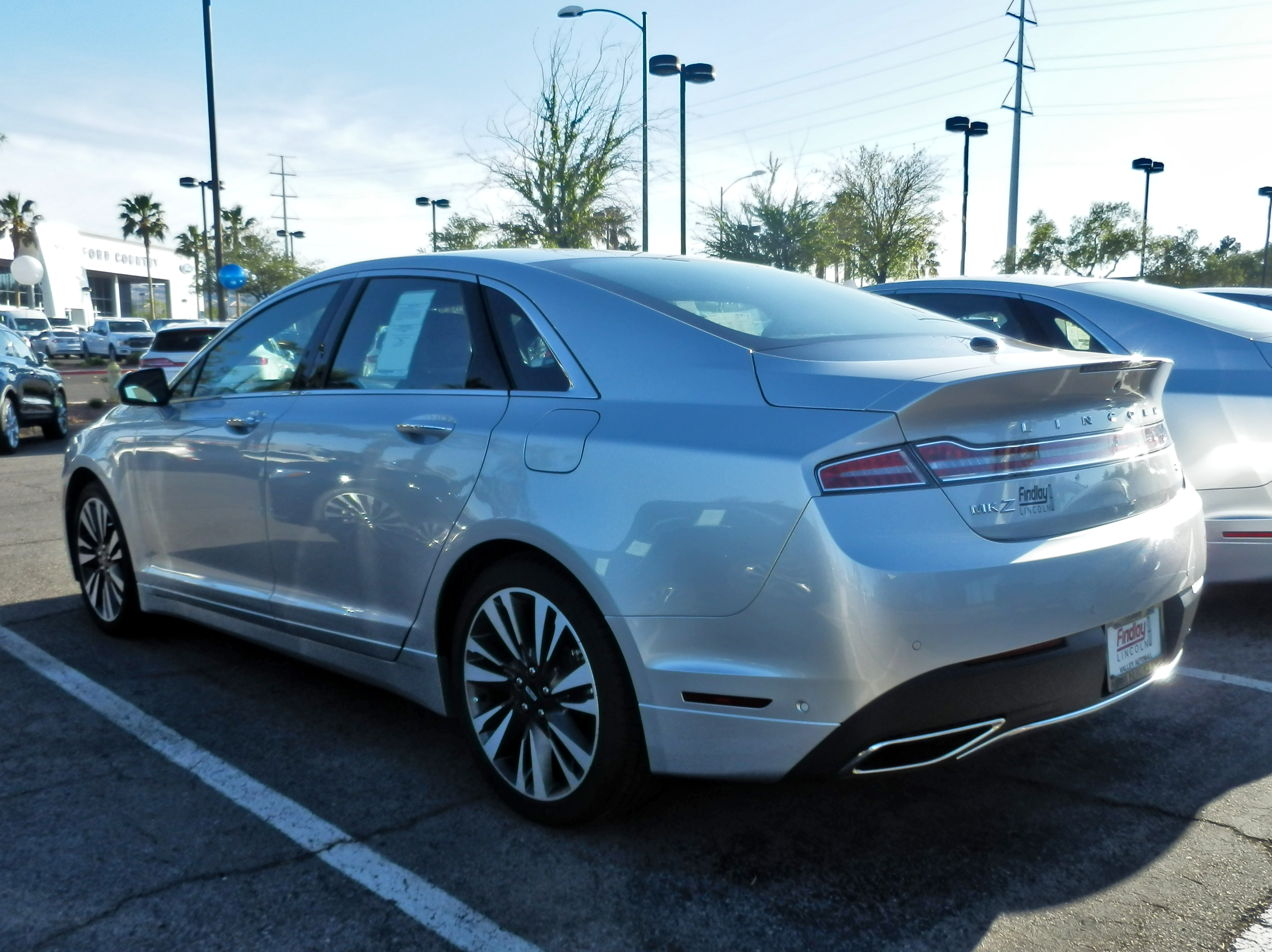 Lincoln MKZ in Las Vegas